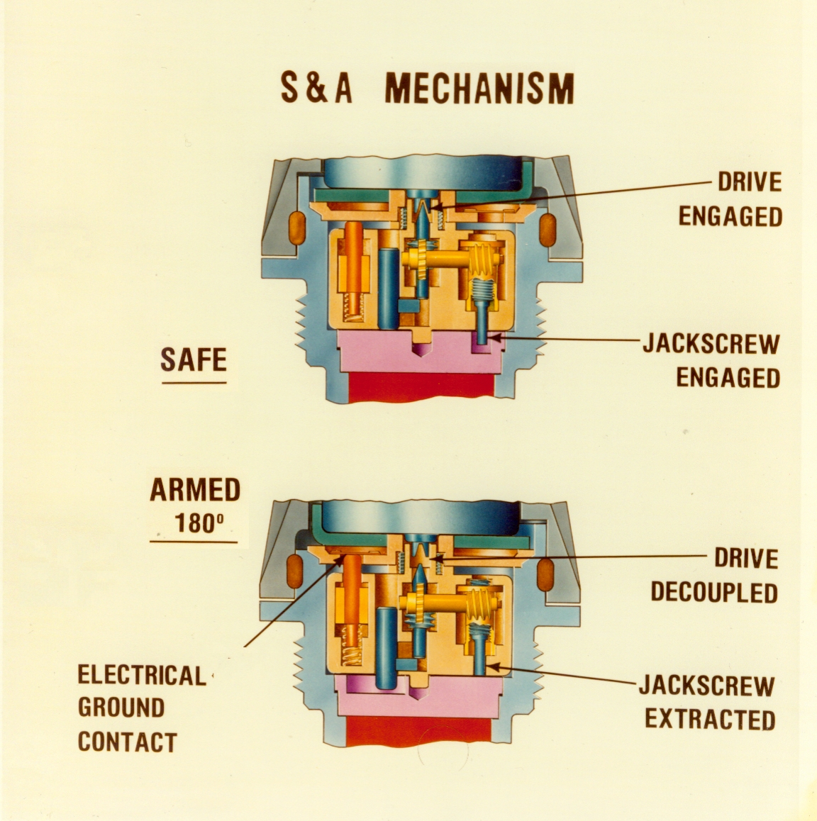 Cutaway drawing of M734 fuze showing S&A unarmed and armed.